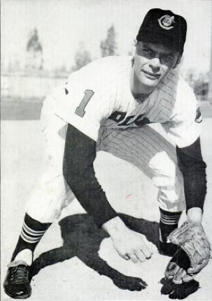 Cleveland Indians second baseman Jerry Kindall in a 1962 issue of Baseball Digest.